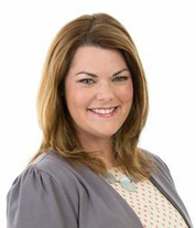 Photograph of Sarah Hanson-Young, Greens senator for South Australia.